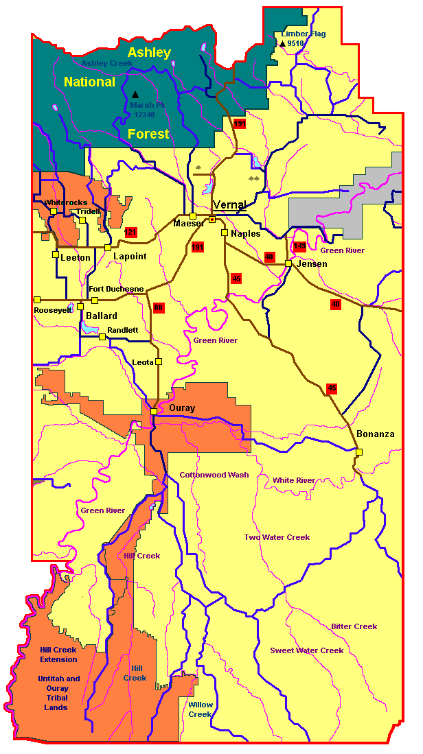 Uintahcounty (UT) Details, selfmade graphic by R.Blauert Dk4hb